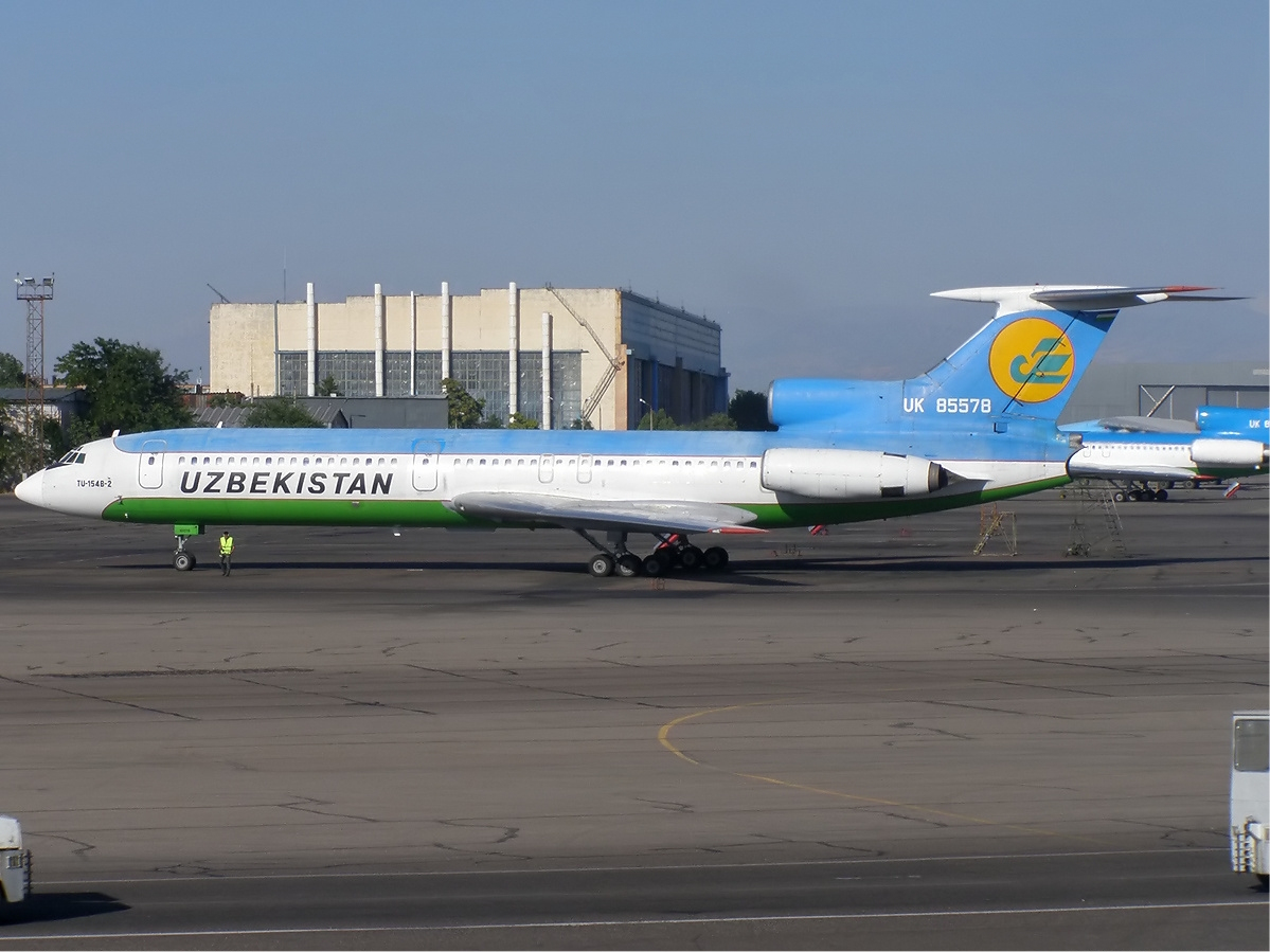 Uzbekistan Airways Tupolev TU-154B-2